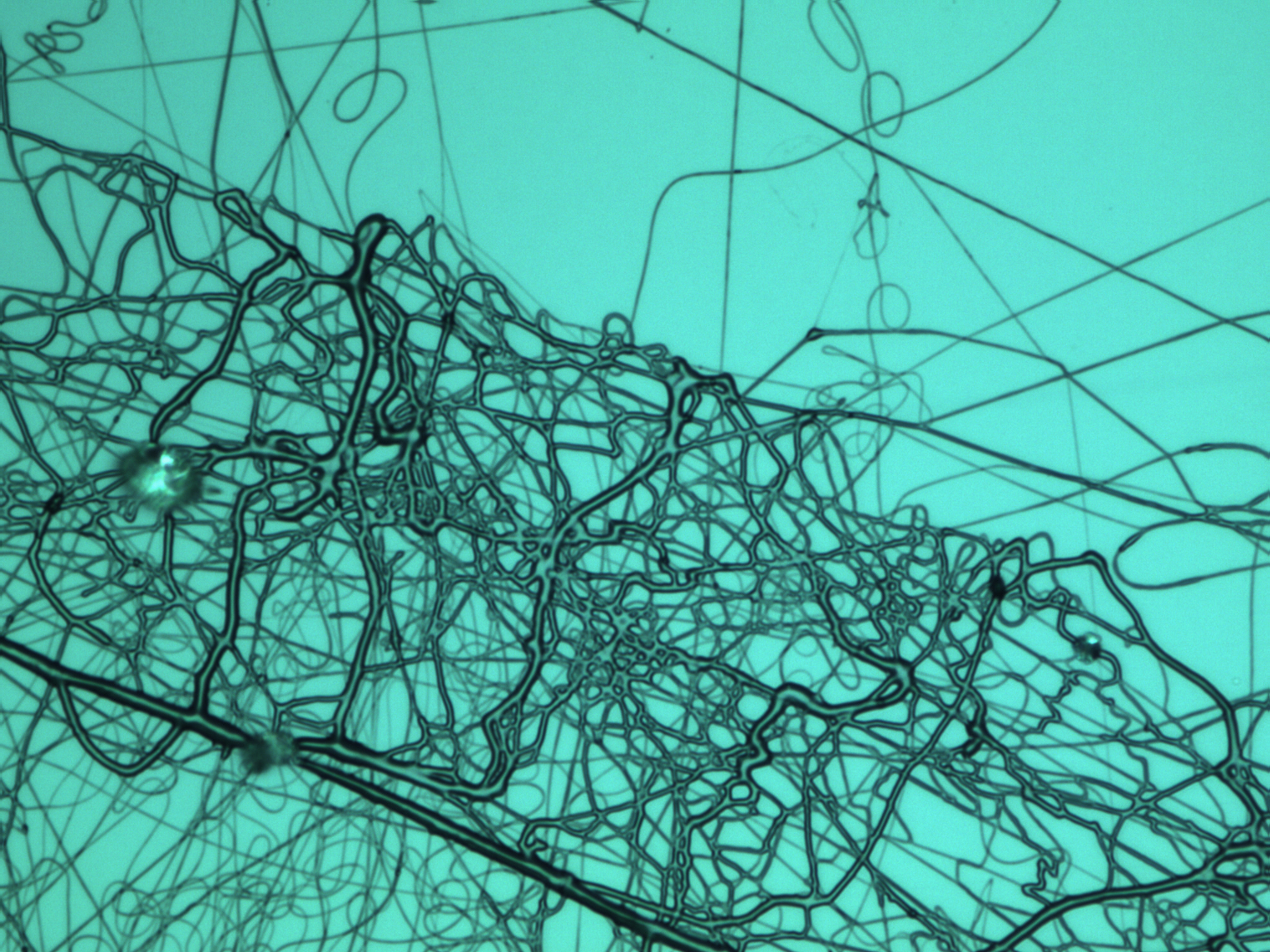 PolyurethaneNanofibers